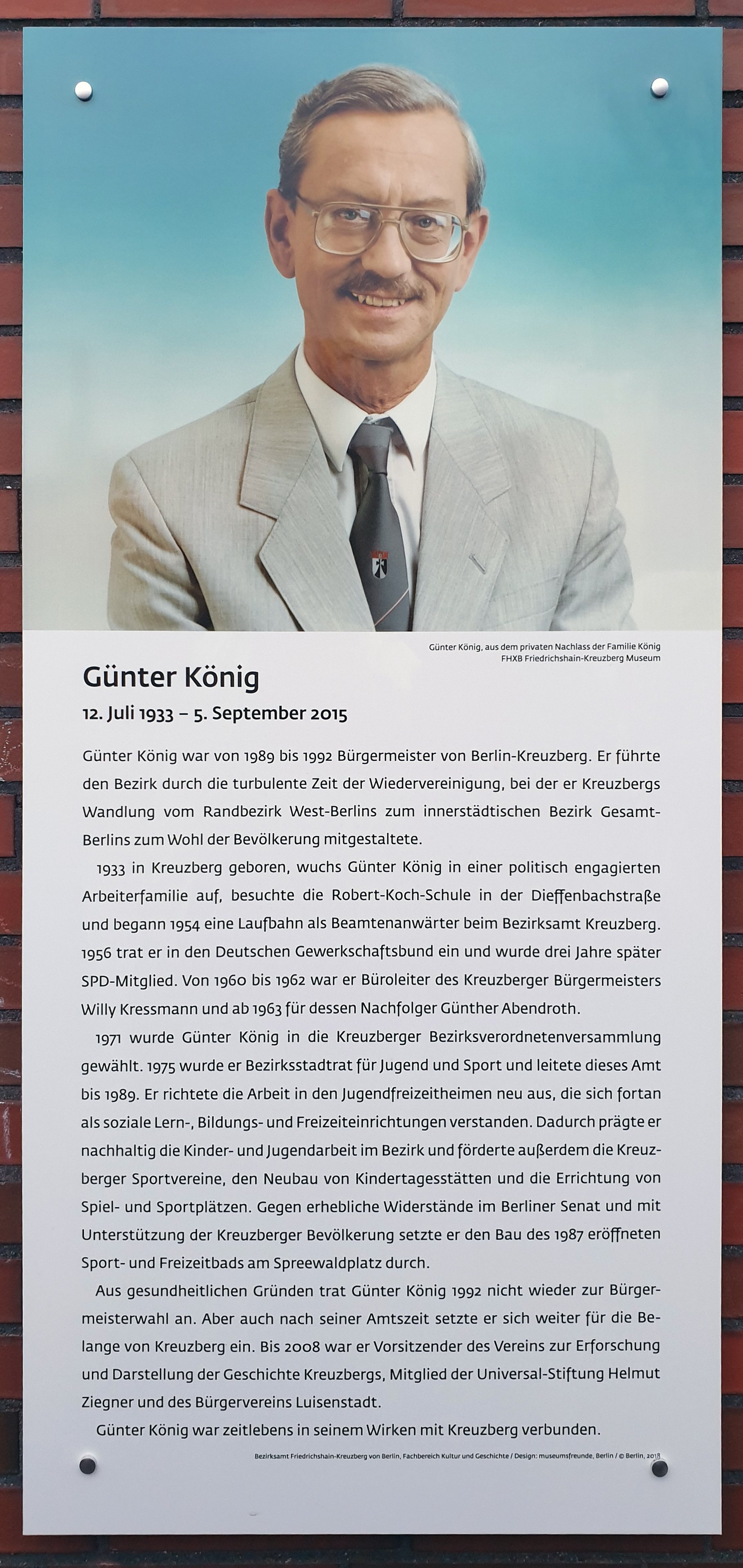 Memorial plaque, Günter König, Blücherstraße 46-47, Berlin-Kreuzberg, Deutschland